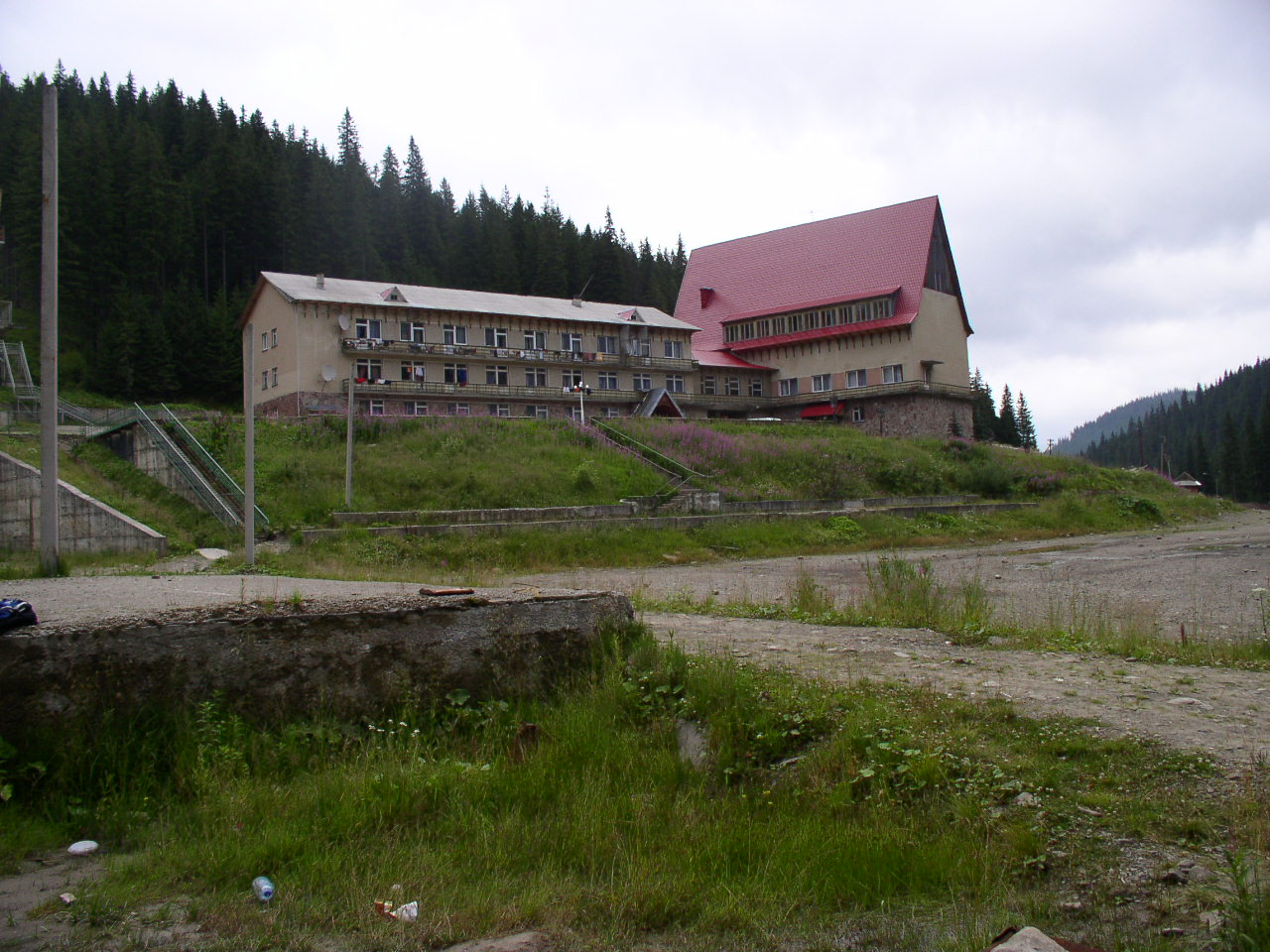 Tourist base "Zaroslyak". Chornohora range. Carpathian Mountains, Ukraine.